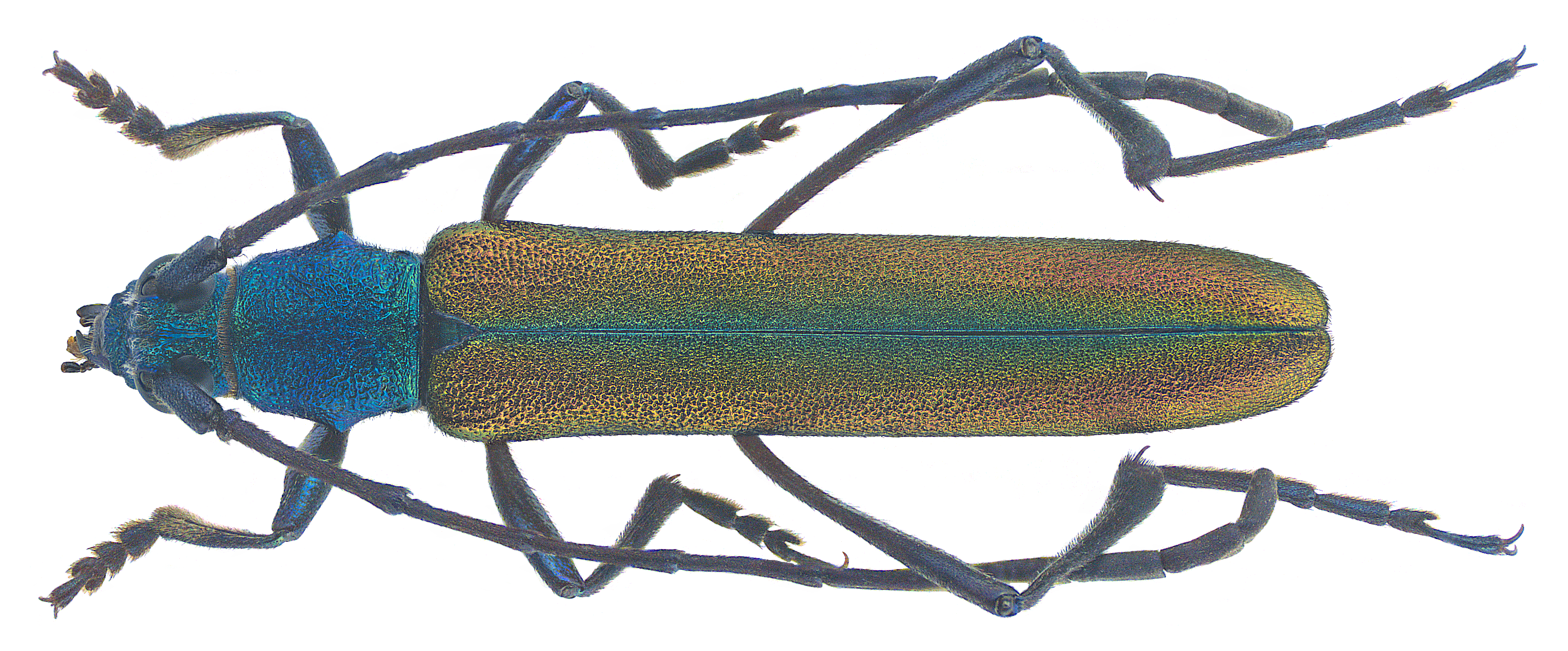 Family: Cerambycidae Size: 17,0 mm Location: China, Yunnan, Lijiang Xiangshan, 2400 m leg. D.Kral, 27.-28.VII.1990; det. A.Skale, 2015 Photo: U.Schmidt, 2016